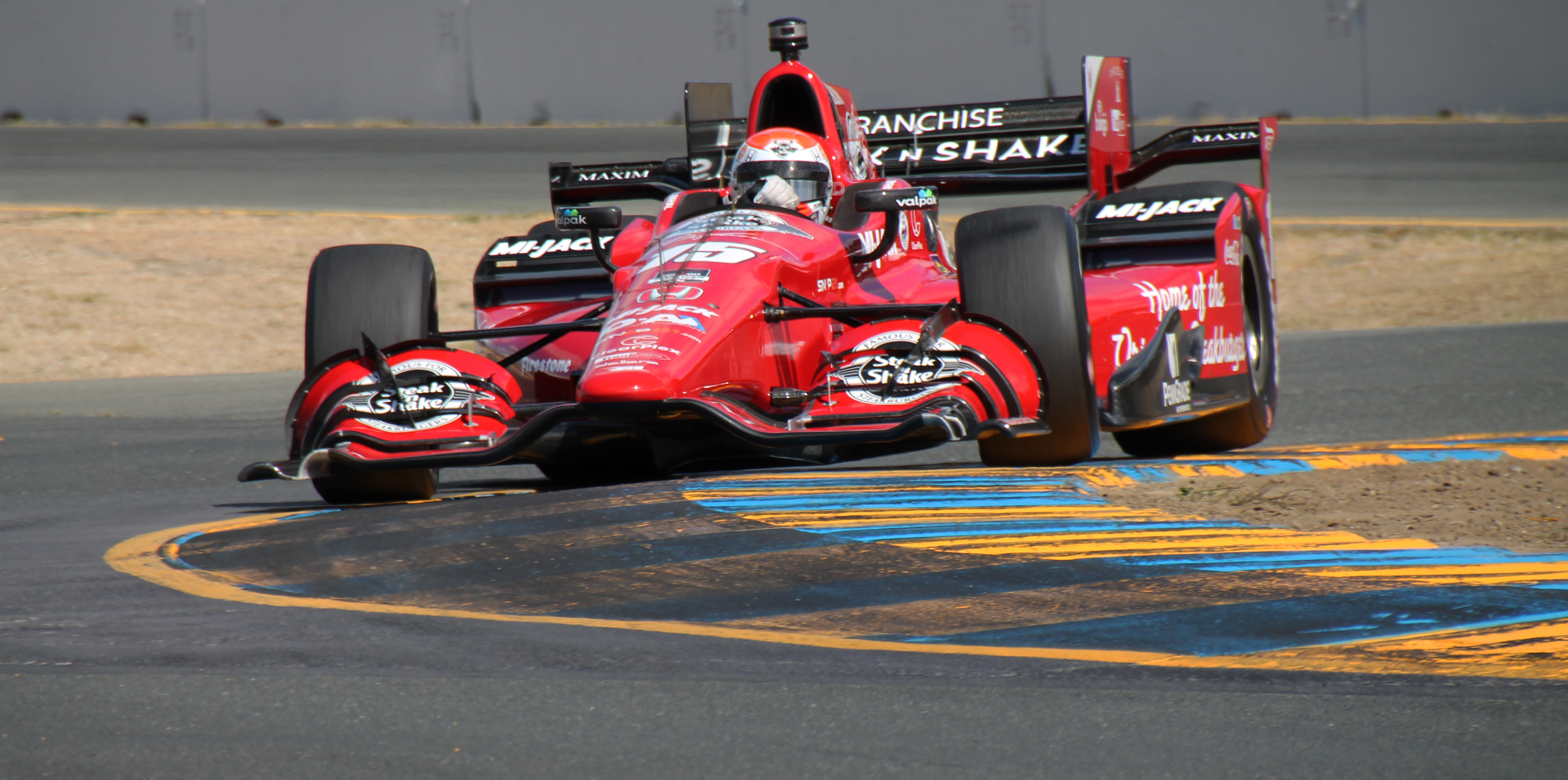 Graham Rahal at the 2015 GoPro Grand Prix of Sonoma